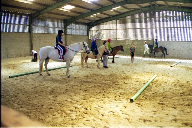 Riding School, North Hoggs Park.